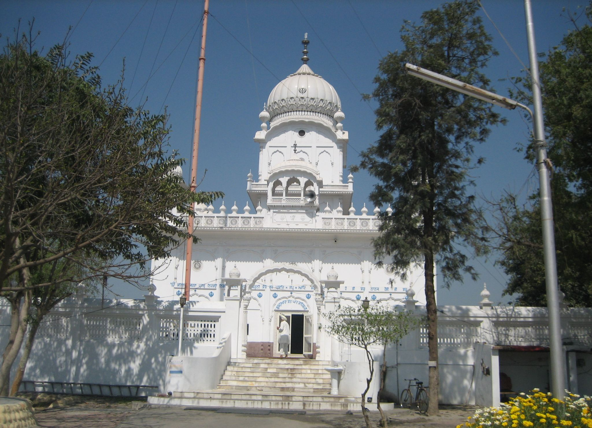 Gurudwara Shree Sant Ghat